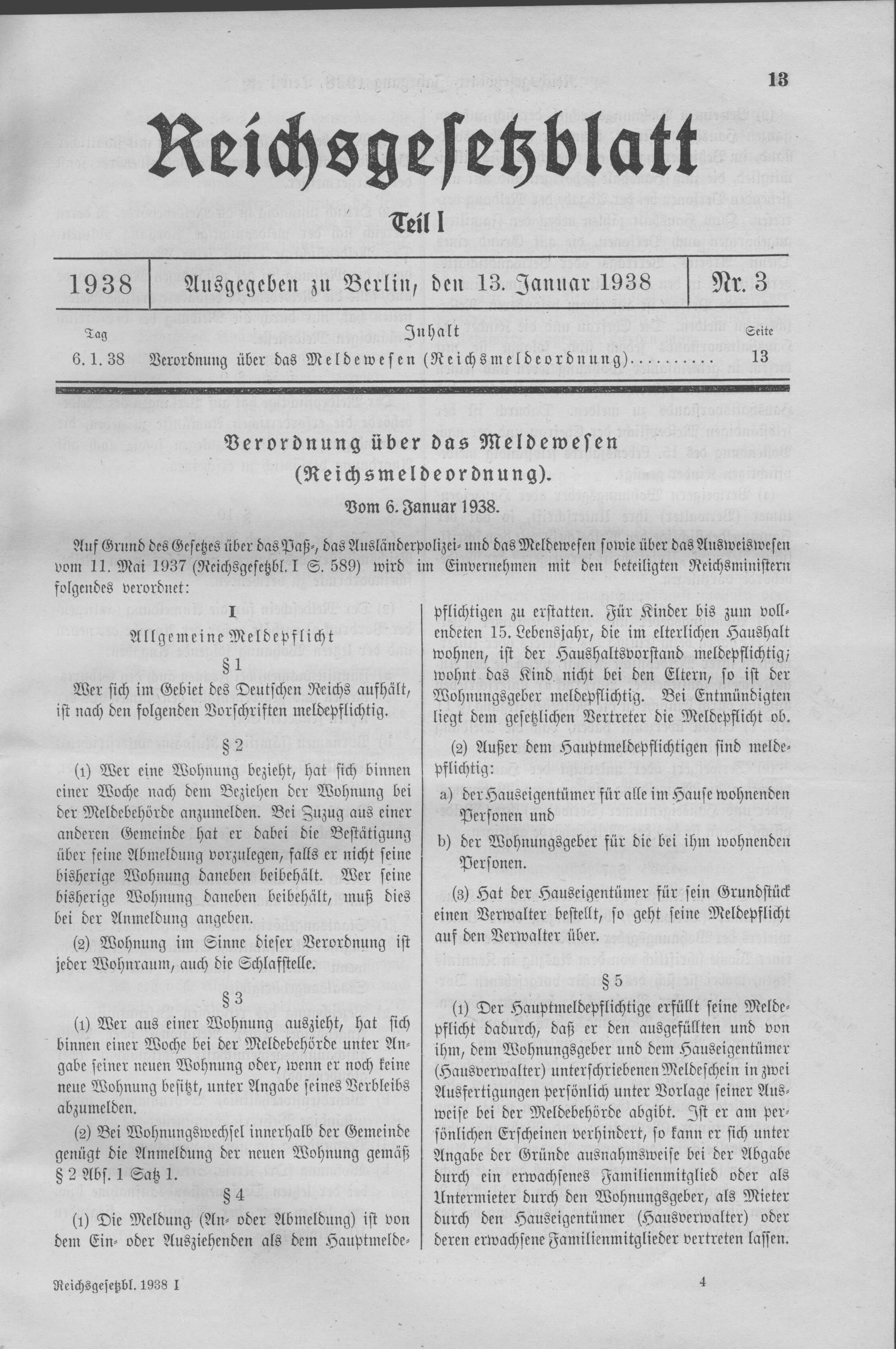 Scan from the Imperial Law Gazette of Germany, 1938, part 1